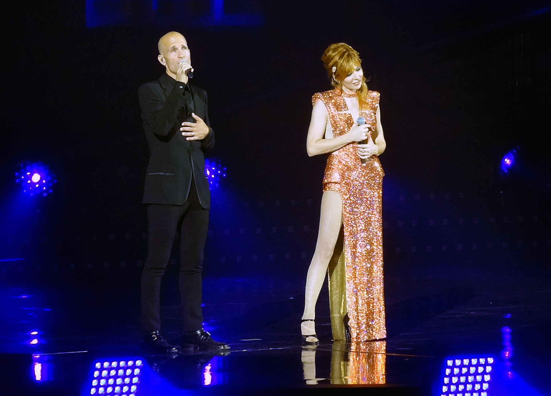 Mylène Farmer and Gary Jules during the Timeless 2013 show, September, 10, 2013. Paris-Bercy, France.